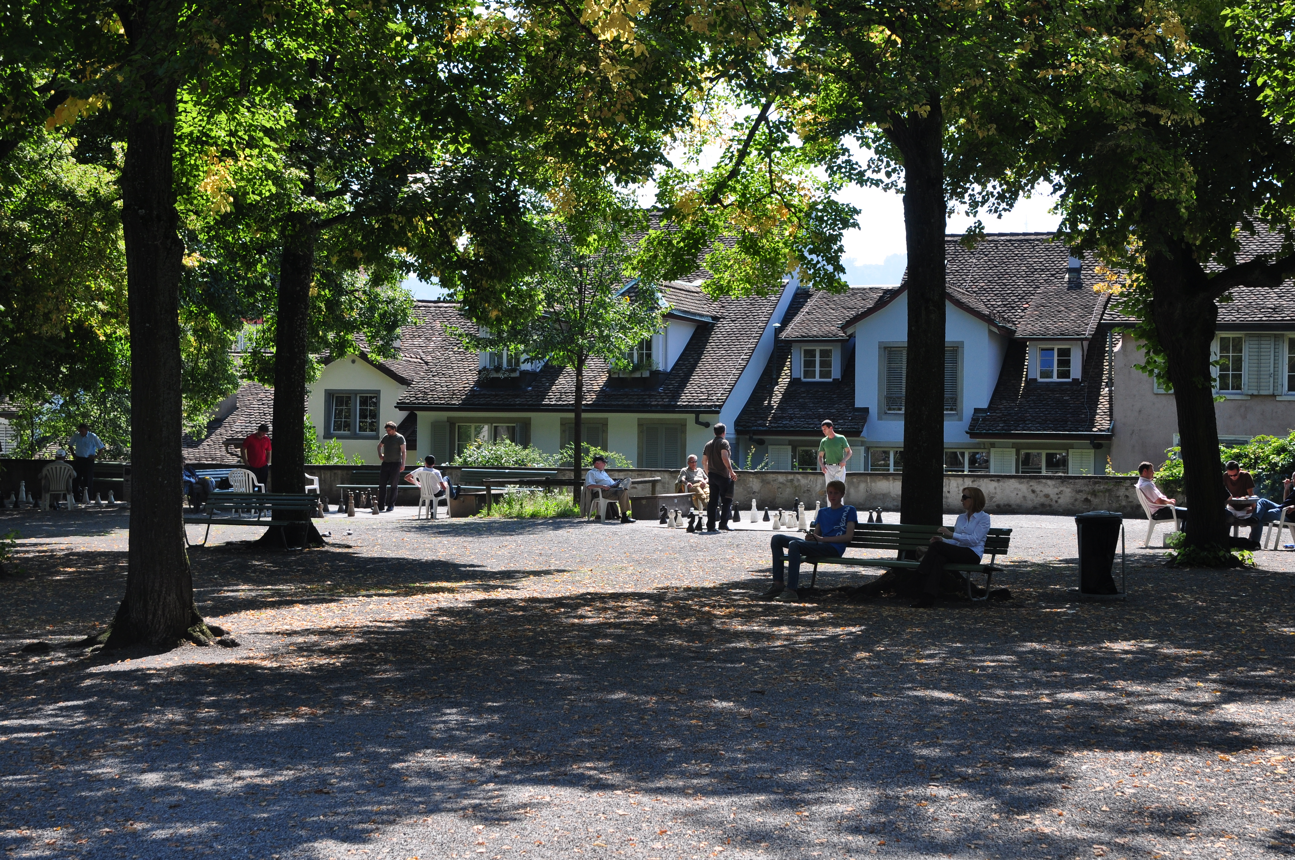 Lindenhof hill and public square in Zürich (Switzerland)